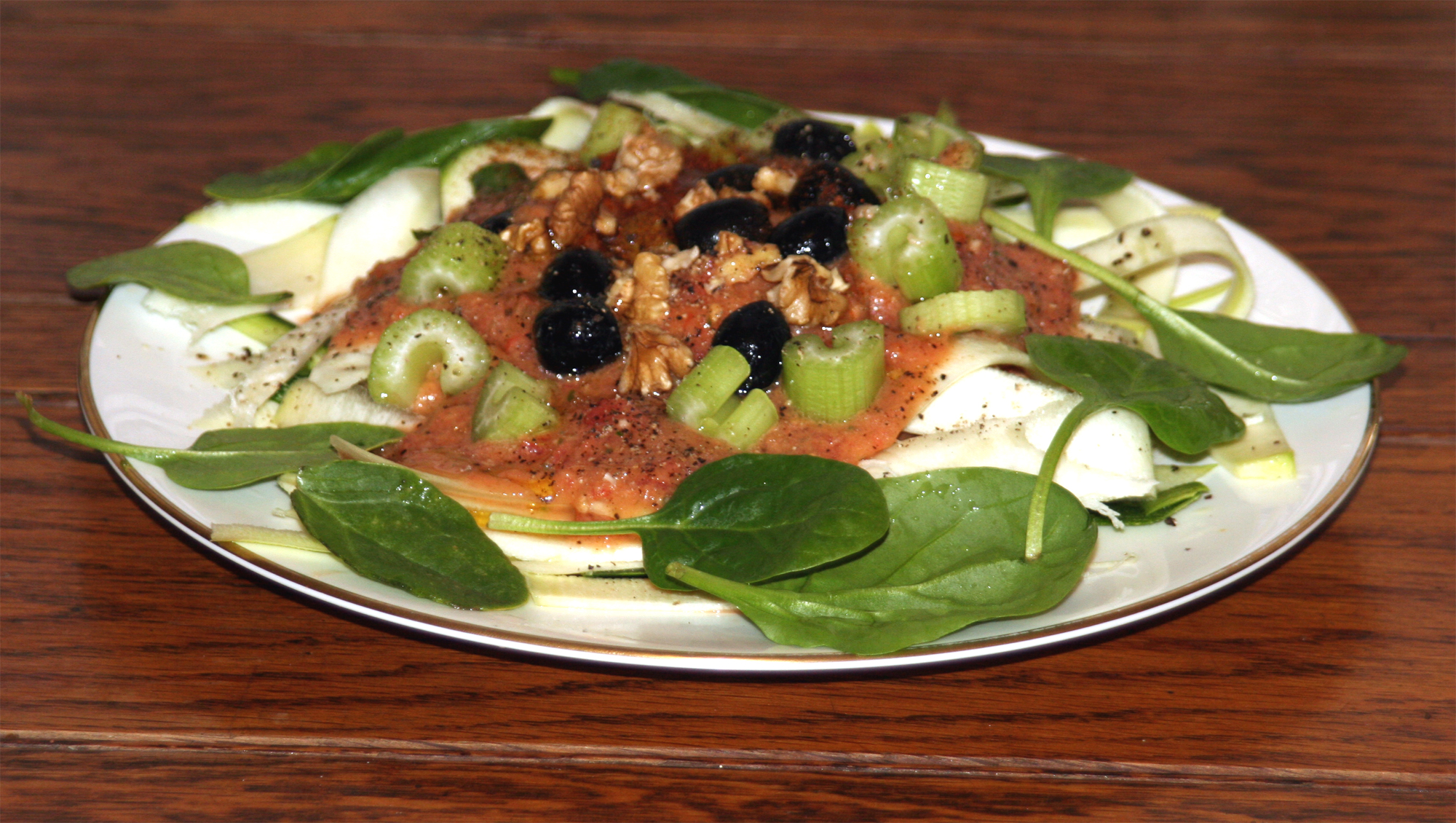 A raw vegan tomato sauce with olives, celery, spinach and walnuts on courgette.